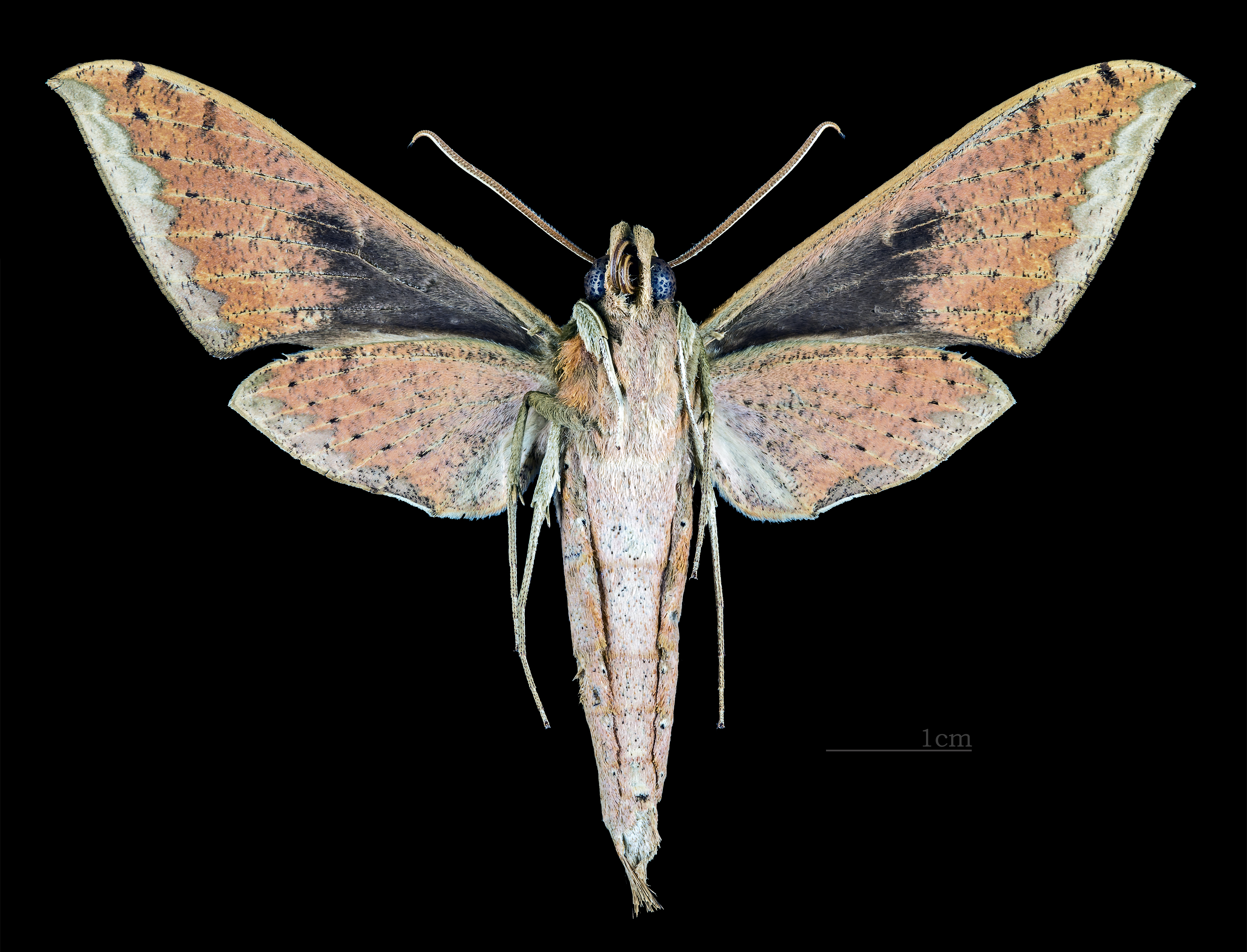 Xylophanes docilis- △ Ventral side